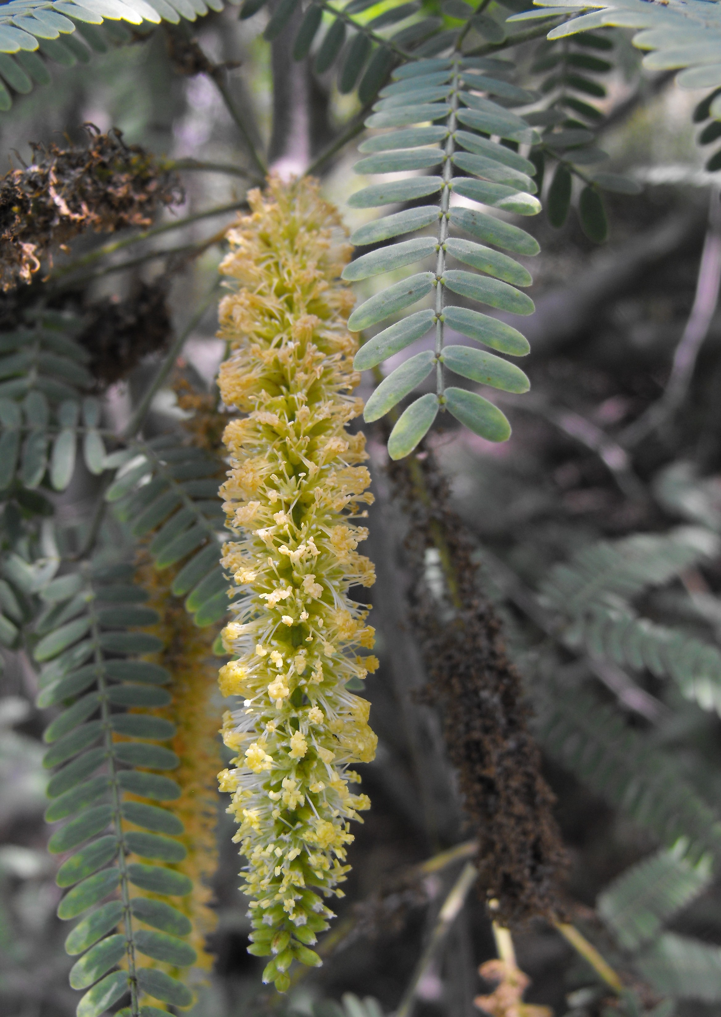 Prosopis chilensis. At Descanso Gardens in La Cañada Flintridge, Southern California. Identified by sign.